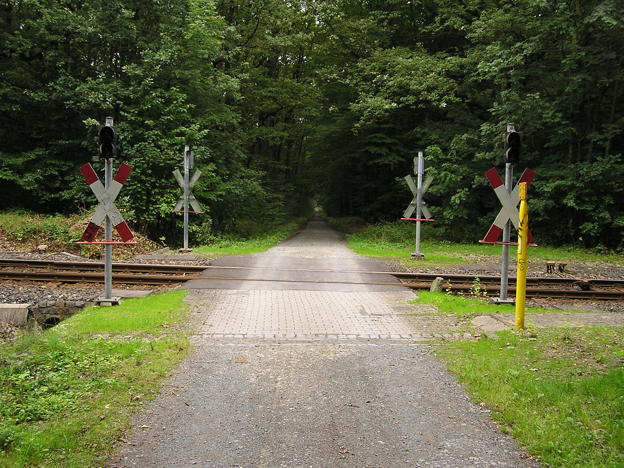 Level crossing without gates near Friedrichsdorf